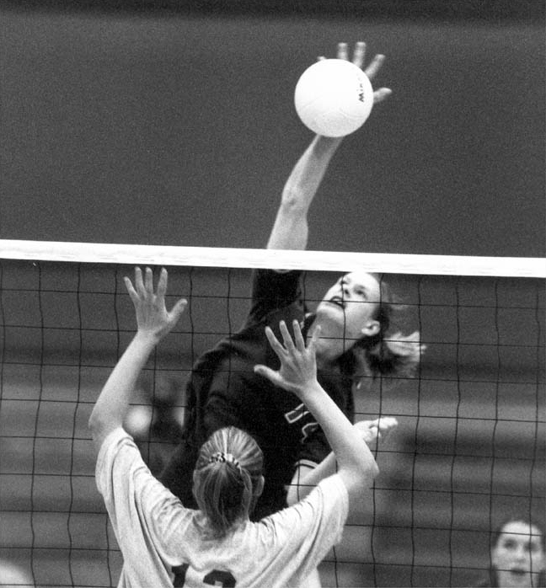 Jennifer Martz in action Today, The Washington University Office of Sports Information provided the following consent for the attached image: As per this email, I am granting you permission to use the following images according to the GNU Free Documentation License.